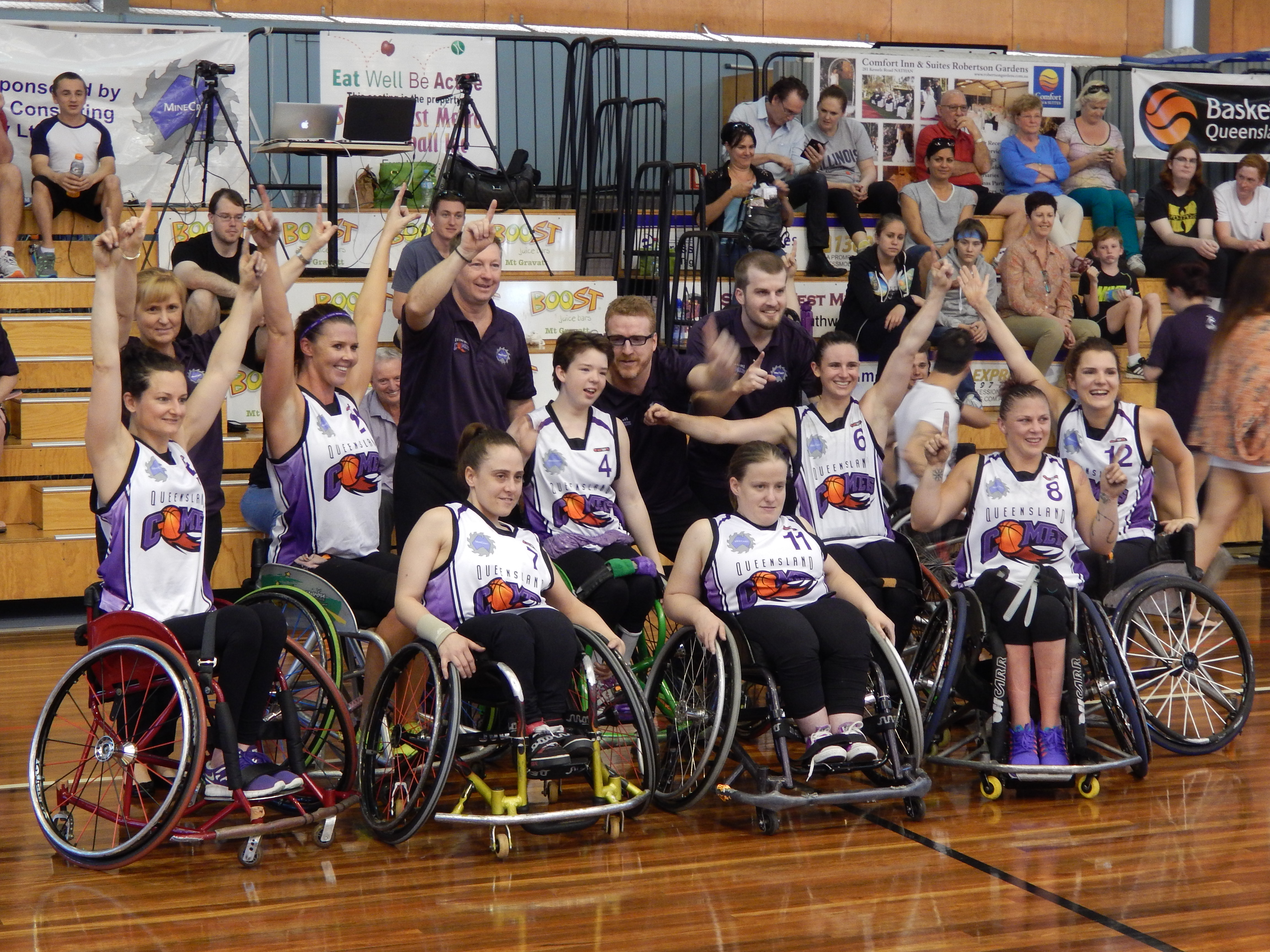 Minecraft Comets celebrate winning the 2014 championship in Brisbane. Players are (left to right): Melanie Hall, Allison Herring, Anthea Castelli, Georgia Bishop-Cash, Kirsty Bishop, Bridie Ken, Shelley Cronau, Ella Sabljak